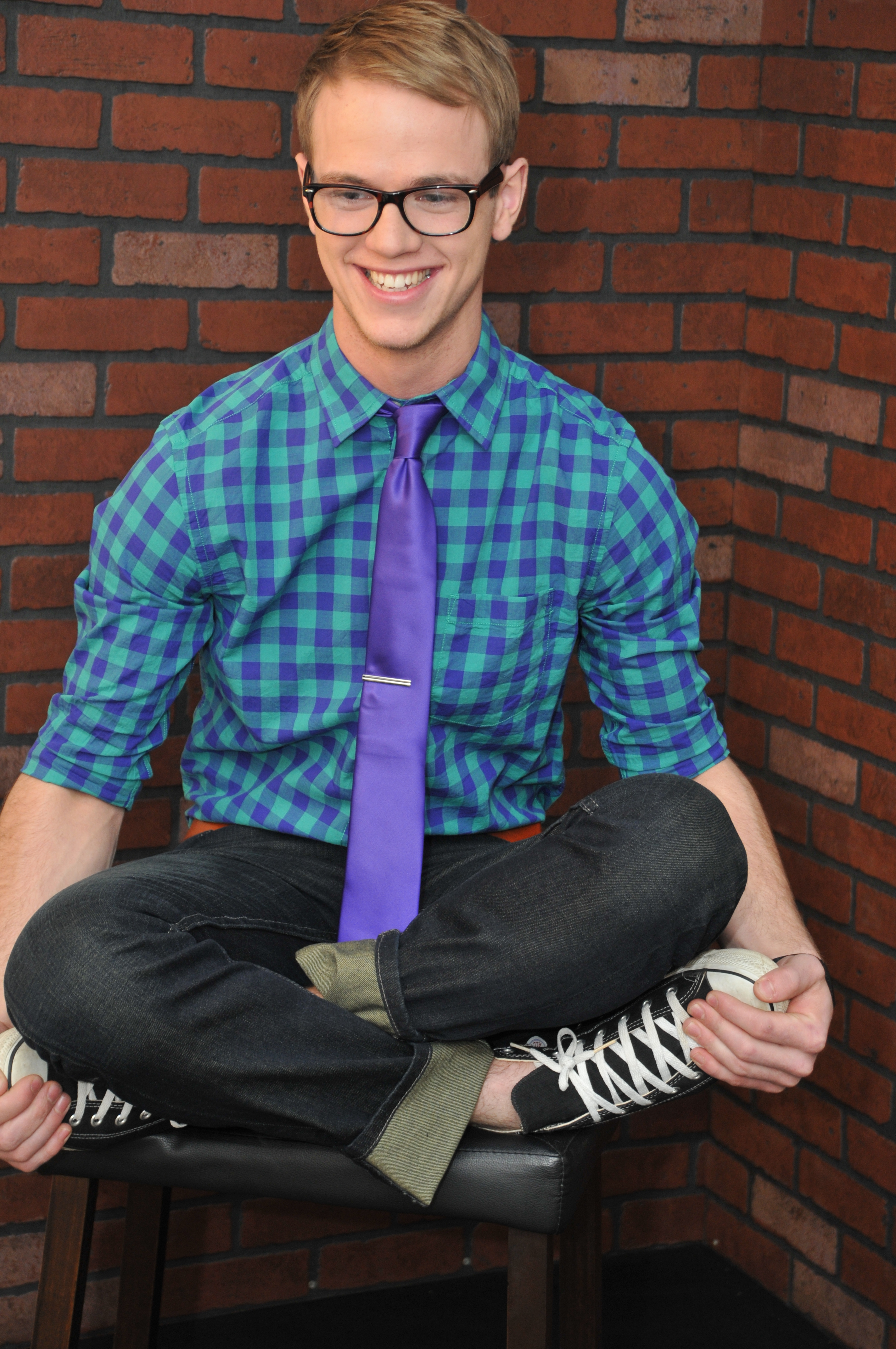 Josh Wilson Hipster Glasses 3